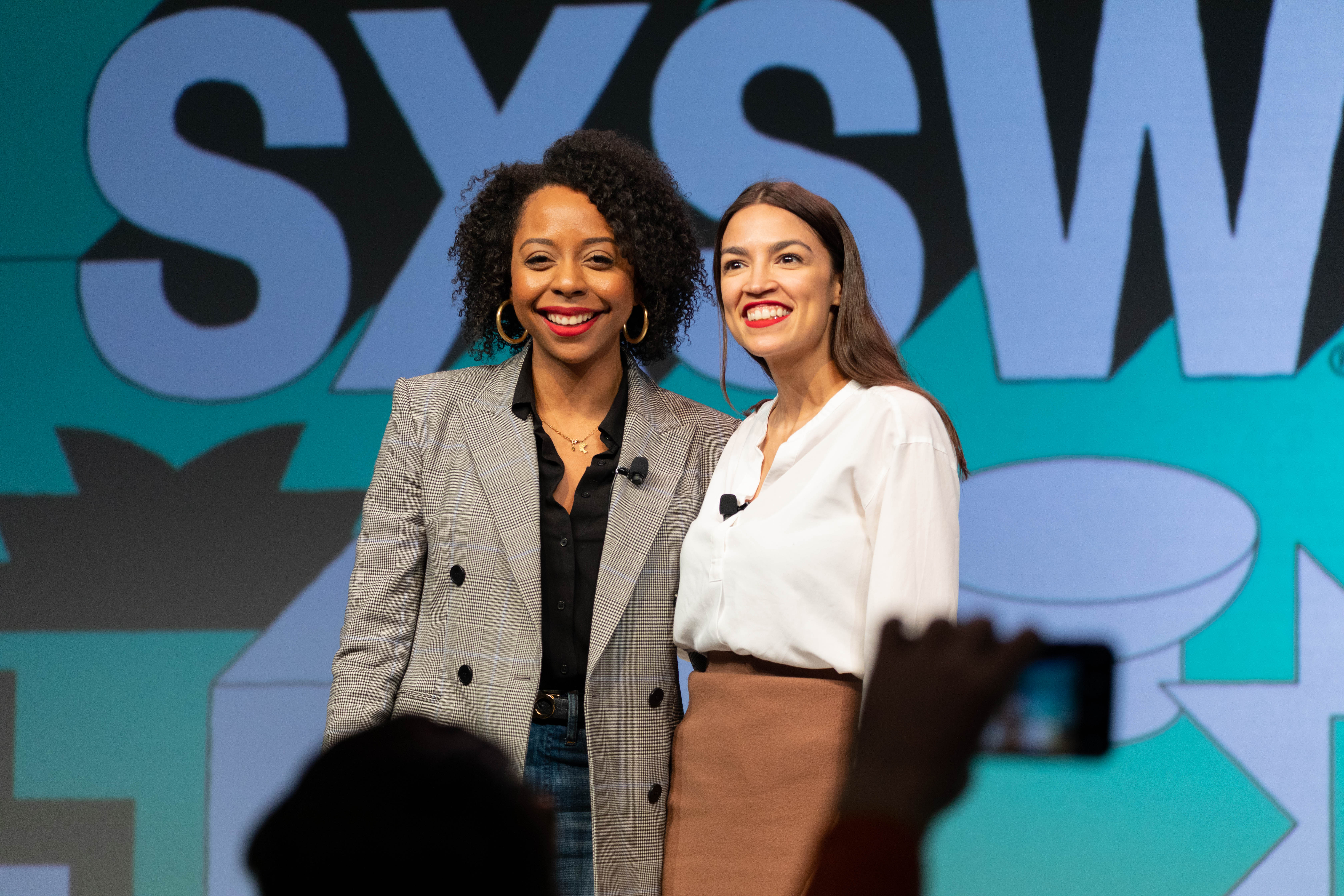 New York Rep. Alexandria Ocasio-Cortez Photo: Ståle Grut / NRKbeta